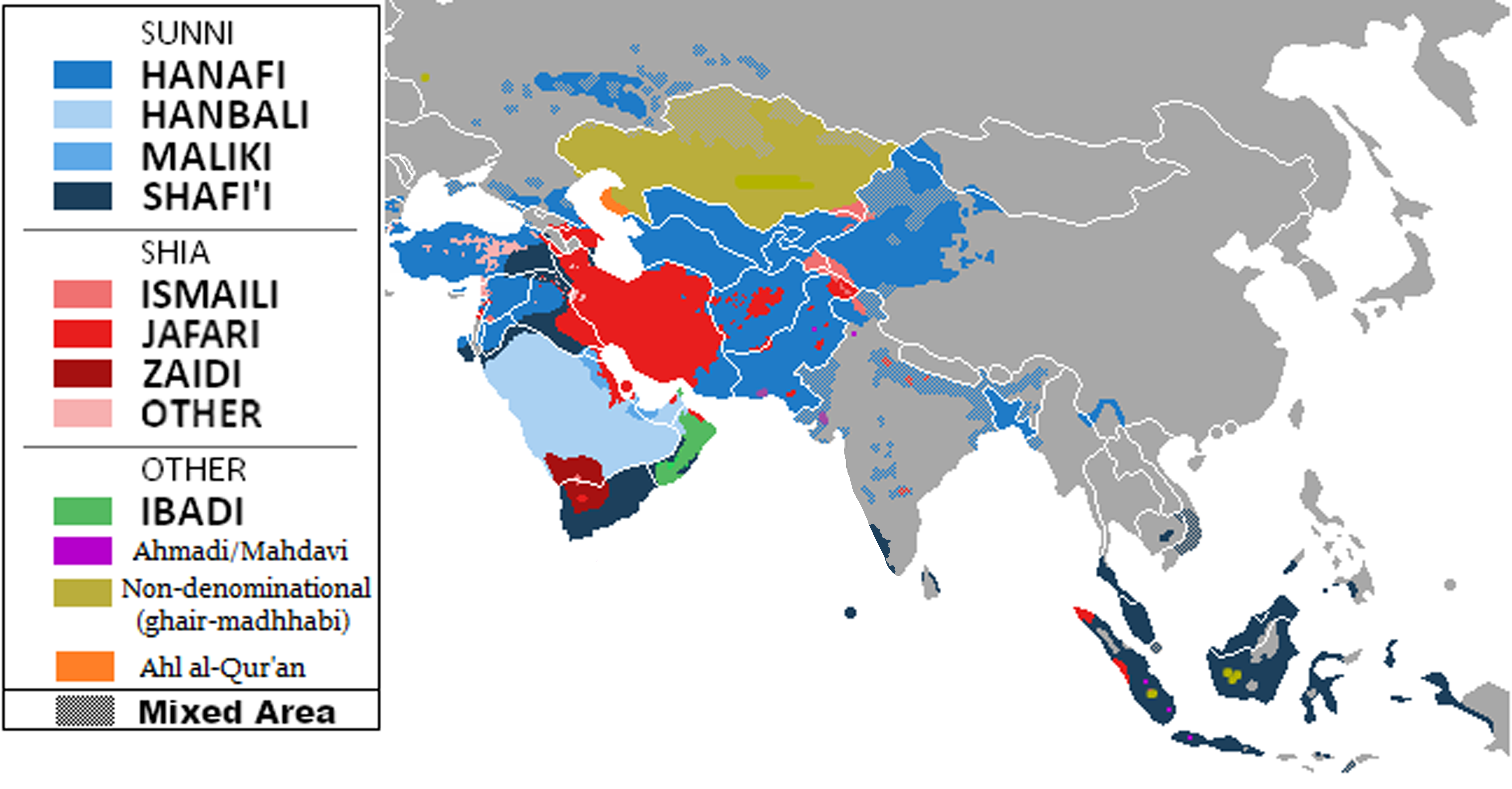 Self-reported Muslim affinity in Asia